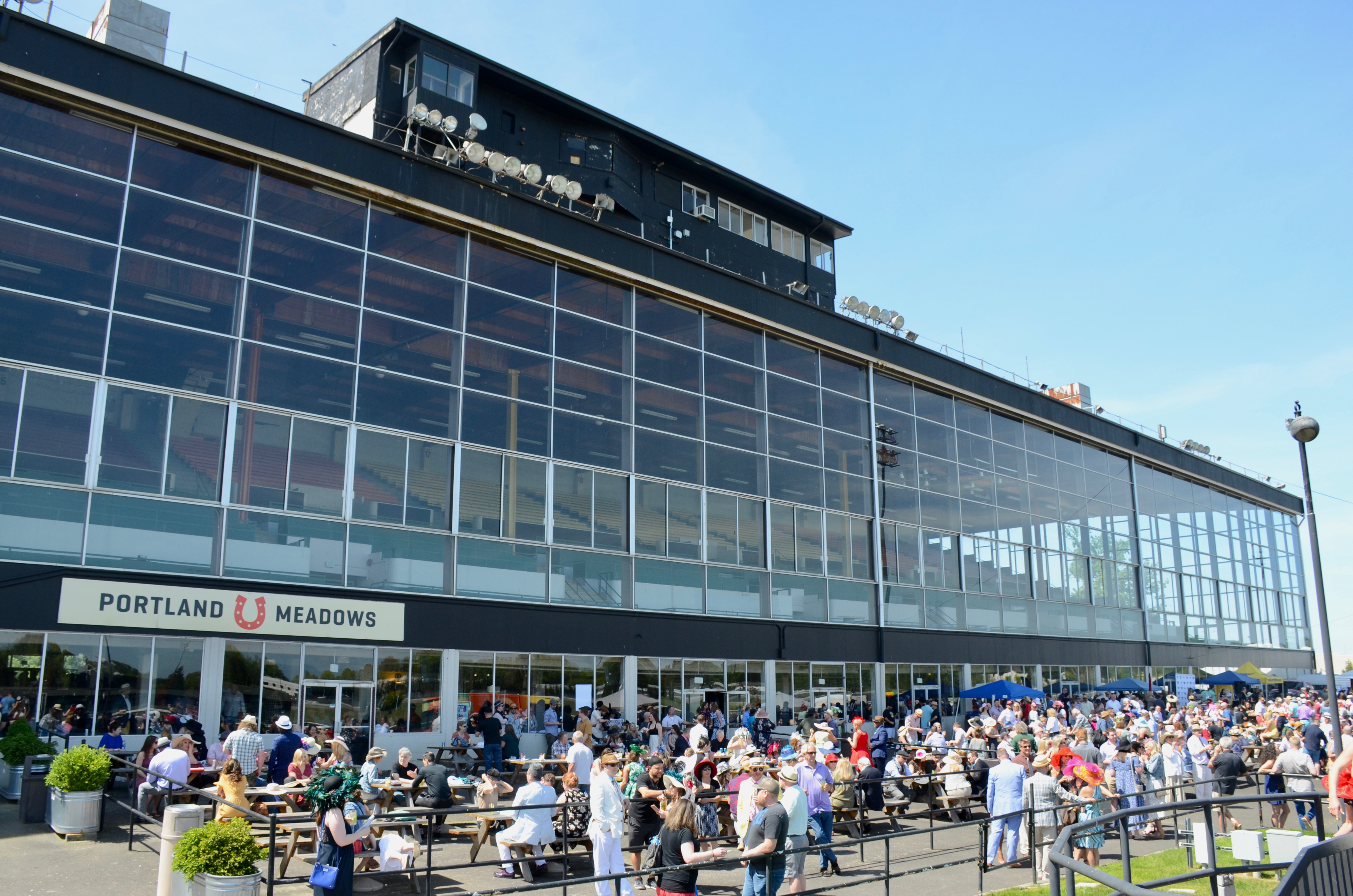 The east exterior of Portland Meadows horse racetrack in Portland, Oregon, from the outer edge of the track, showing the enclosed grandstand and outdoor eating area. The photo was taken on the day of the 2019 Kentucky Derby, and this facility was open for the public to watch that race (via TV monitors), and place bets on it. However, no races were scheduled to take place at this track, so the grandstand was closed, but other parts of the building were open.